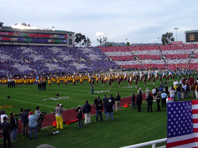 A large card stunt performed during the opening ceremonies of the en:2004 Rose Bowl Game between the USC Trojans and Michigan Wolverines (USC won, 28-14). The card stunt took place as both university bands performed the national anthem together under the direction of Rose Parade Grand Marshall John Williams. Photo taken by Bobak Ha'Eri. January 2004. Please observe license and properly cite in use outside Wikipedia.